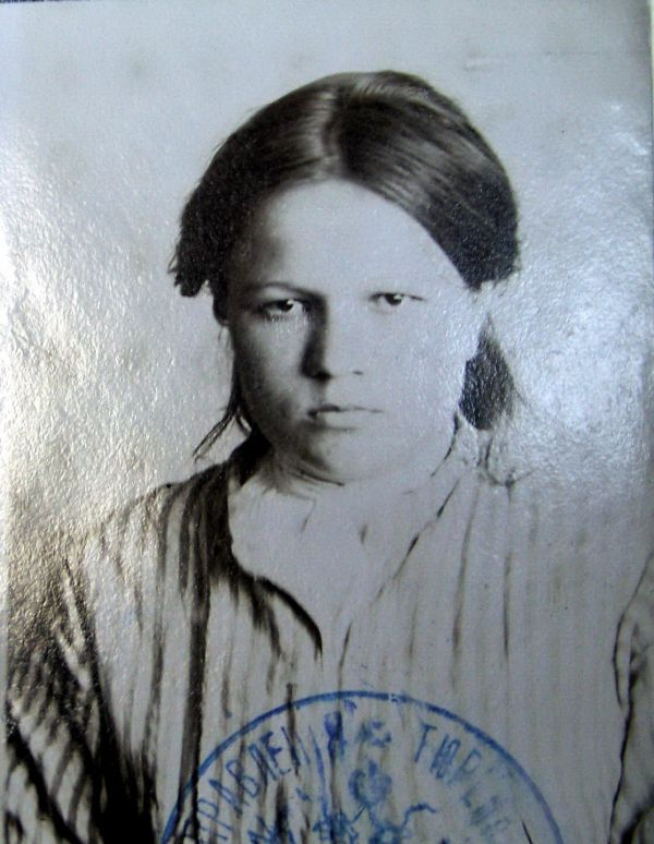 Olga Pyanykh in a jail, daughter of Ivan Pyanykh, a member of the Second Russian State Duma from Kursk Governorate in 1907